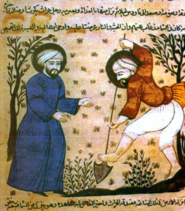 A scene of agricultural work with a man digging herbaceous plants with a spade, among cultivated trees, from a mediaeval Arabic manuscript from Al-Andalus (Islamic Spain)